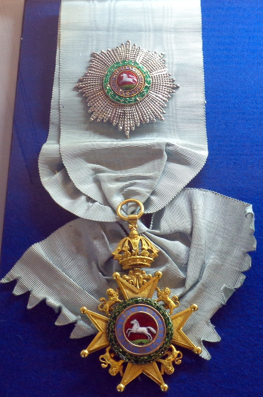 Royal Guelphic Order, insignias of Grand Cross, 1830. Kingdom of Hannover. The exhibition of the Tallinn Museum of Orders of Knighthood, Estonia.